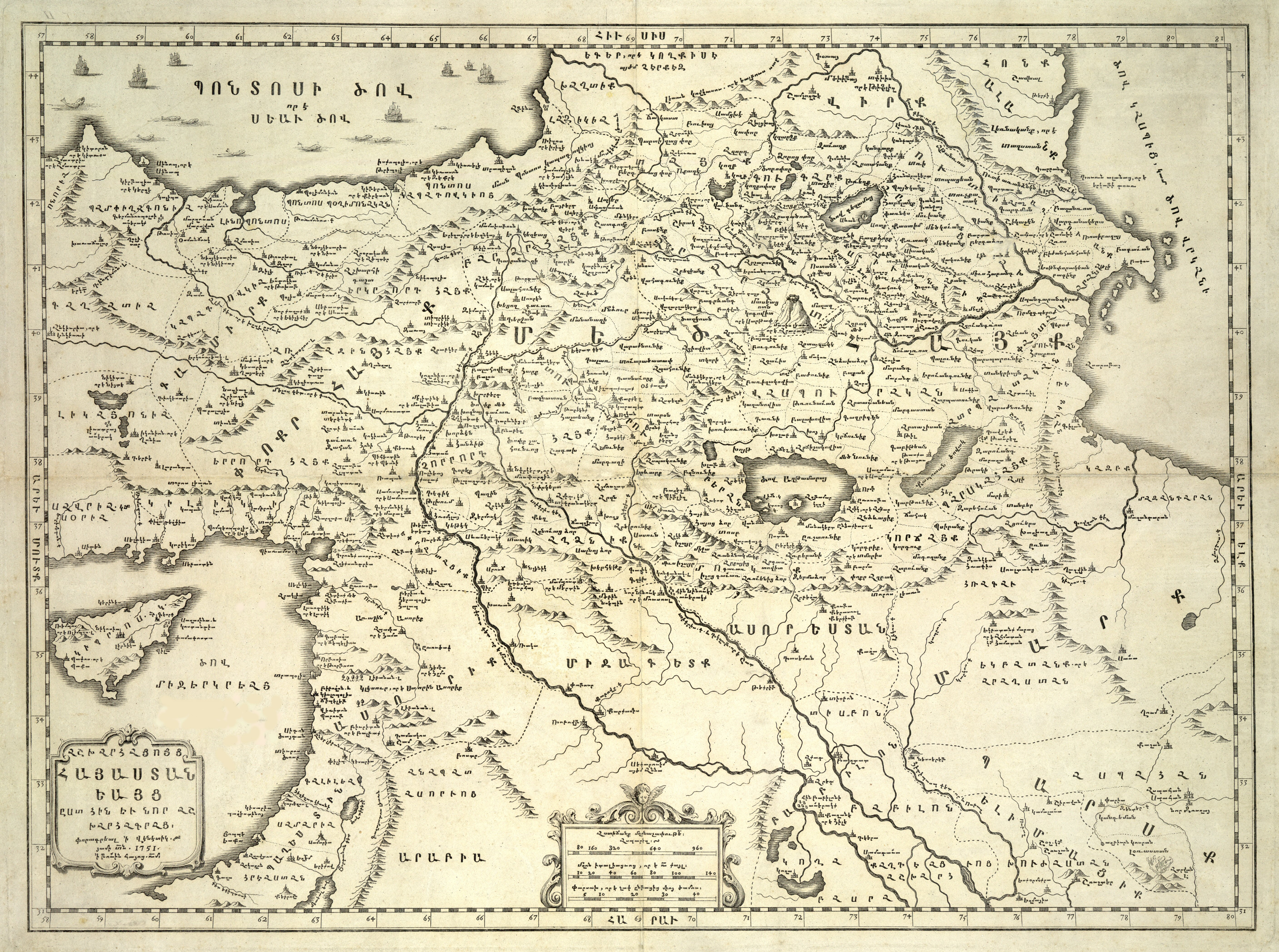 Map of Great Armenia